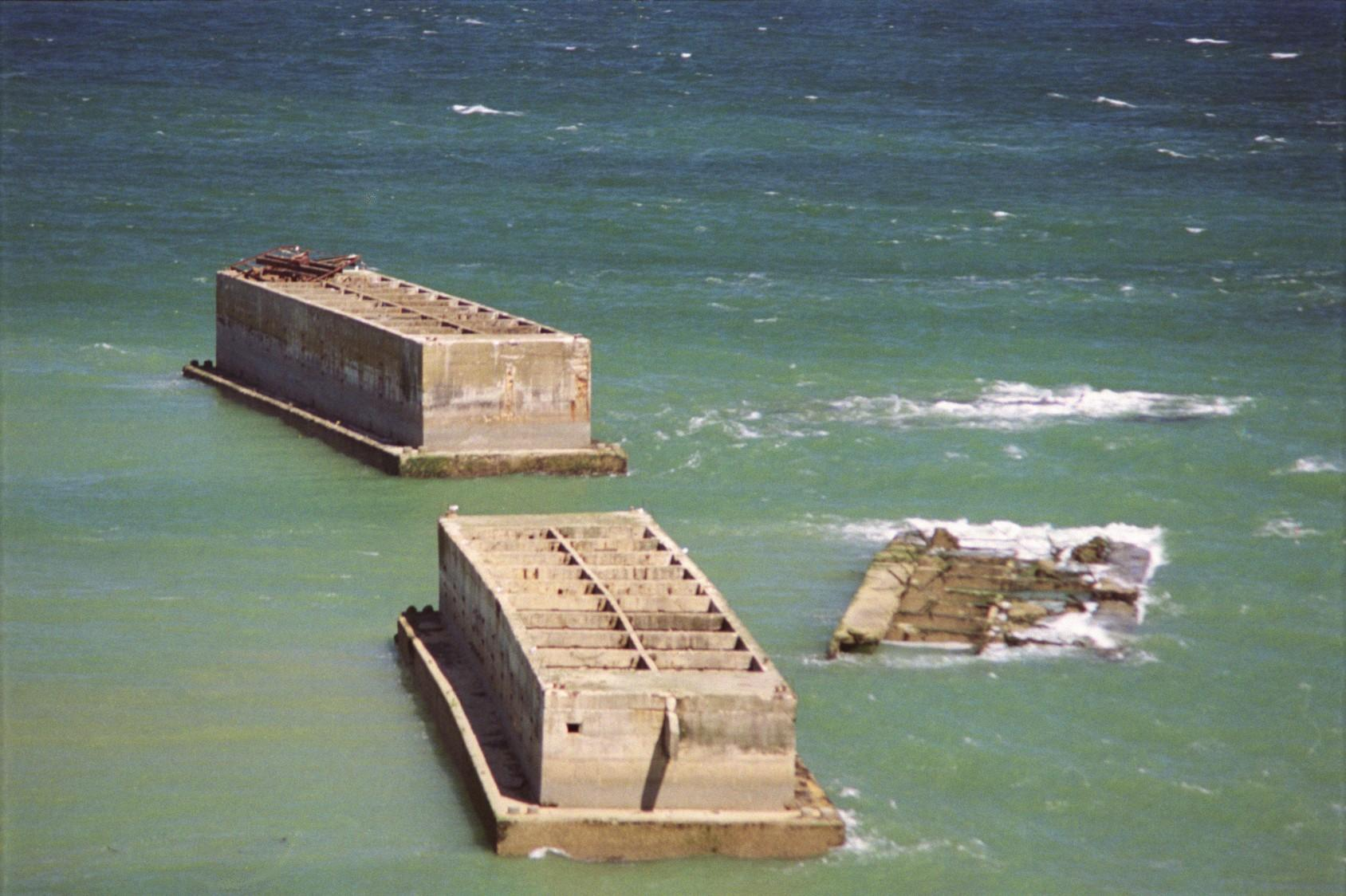 The Phoenix breakwaters reinforced concrete caissons mulberry harbour at arromanches